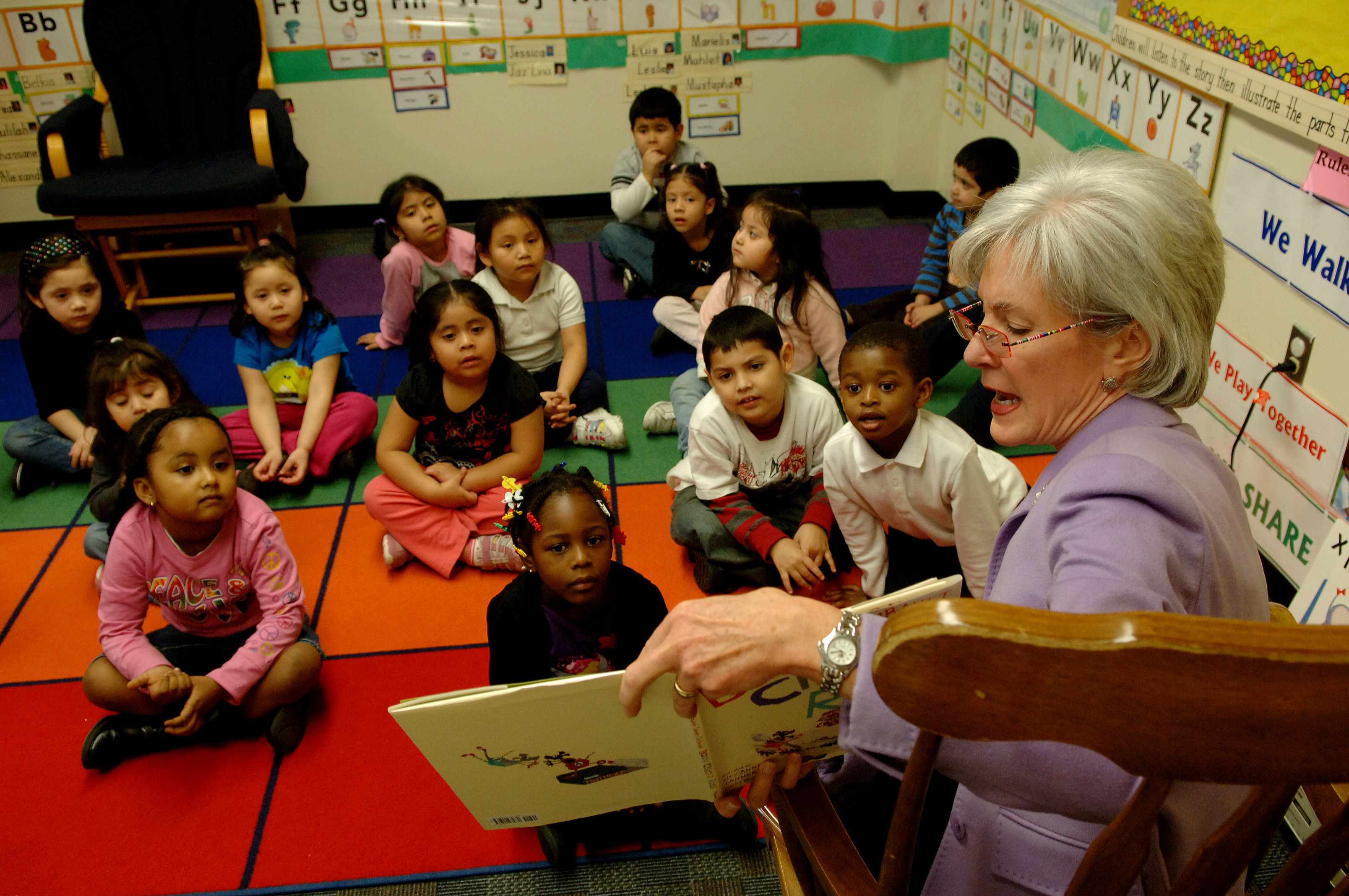 On Thursday, February 17, HHS Secretary Kathleen Sebelius visited the Judy Hoyer Early Learning Center at Cool Springs Elementary School in Adelphi, Maryland. Sebelius reads to a group of 4-year old Head Start students. HHS photo by Chris Smith